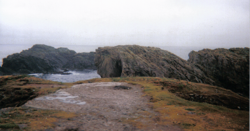 The Butt of Lewis, or Rubha Robhanais, is a cape constituting the northernmost part of the Isle of Lewis in the Outer Hebrides, and therefore of the archipelago. Scanned analogue picture.